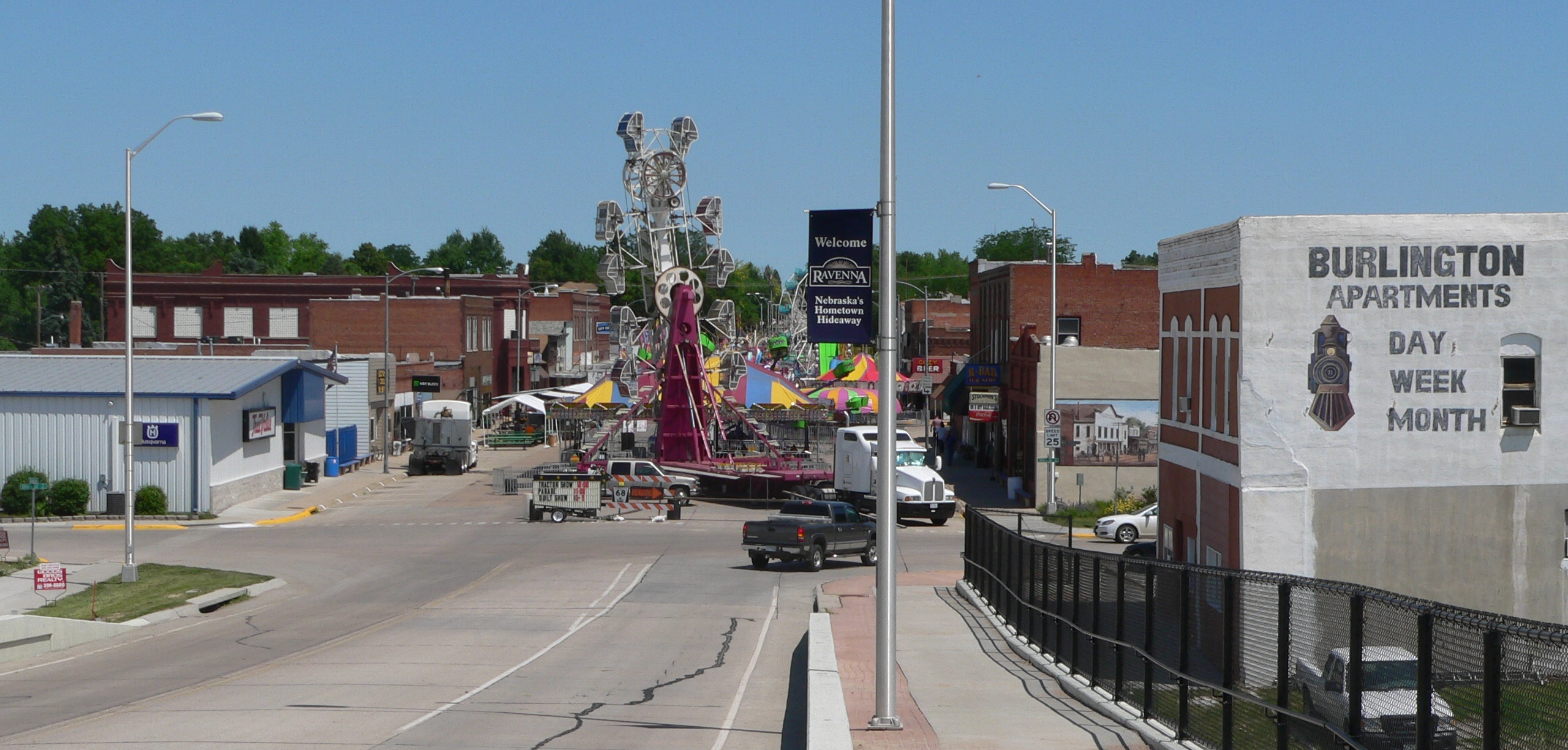 Downtown Ravenna, Nebraska, looking north along Grand Avenue (Nebraska Highway 68) from the overpass that carries the highway across the BNSF Railway tracks. The photograph was taken during Ravenna's annual Annevar festival.